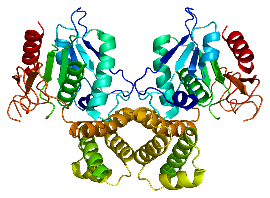 Structure of the FASN protein. Based on PyMOL rendering of PDB 1xkt.